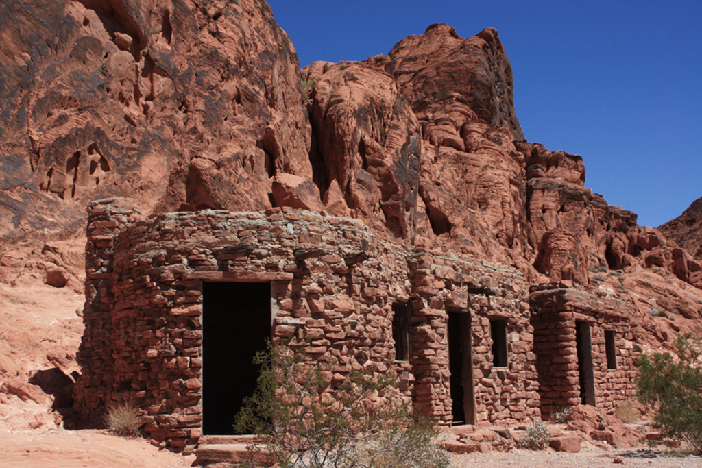 Valley of Fire State Park, Nevada, USA, Civilian Conservation Corps cabins